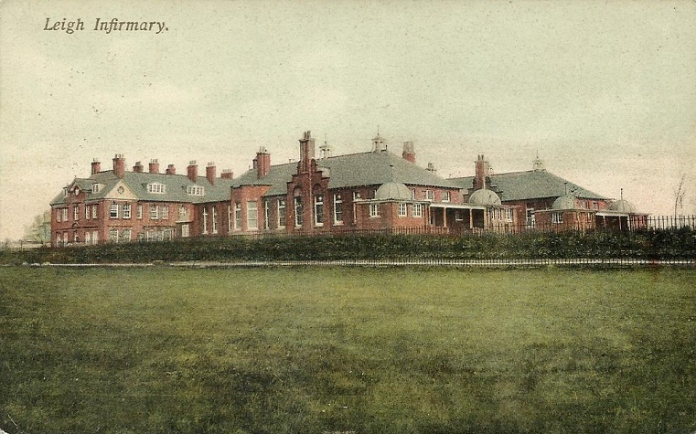 Old postcard of Leigh Infirmary